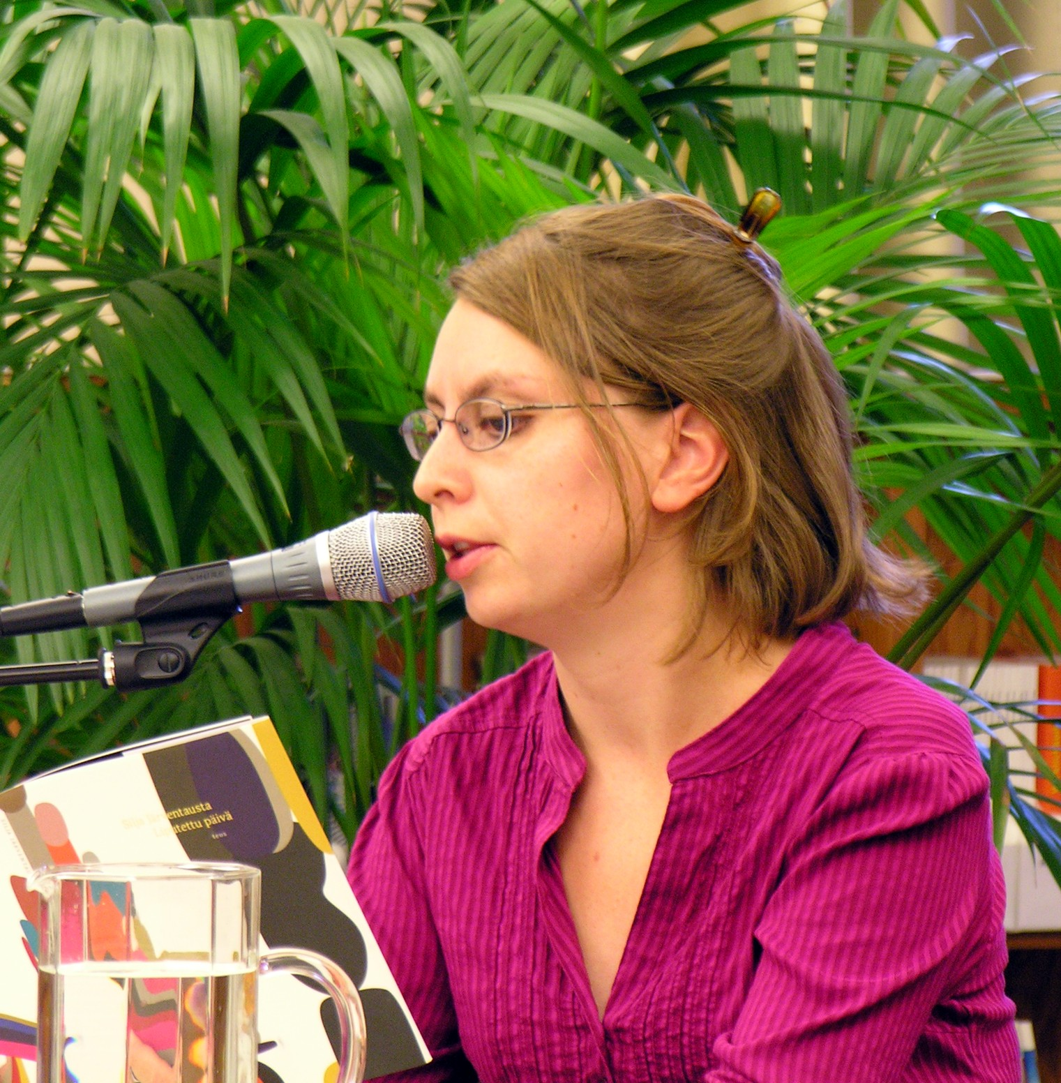 Silja Järventausta, Finnish poet, reading her poems on the Night of the Arts in Helsinki, 2008.